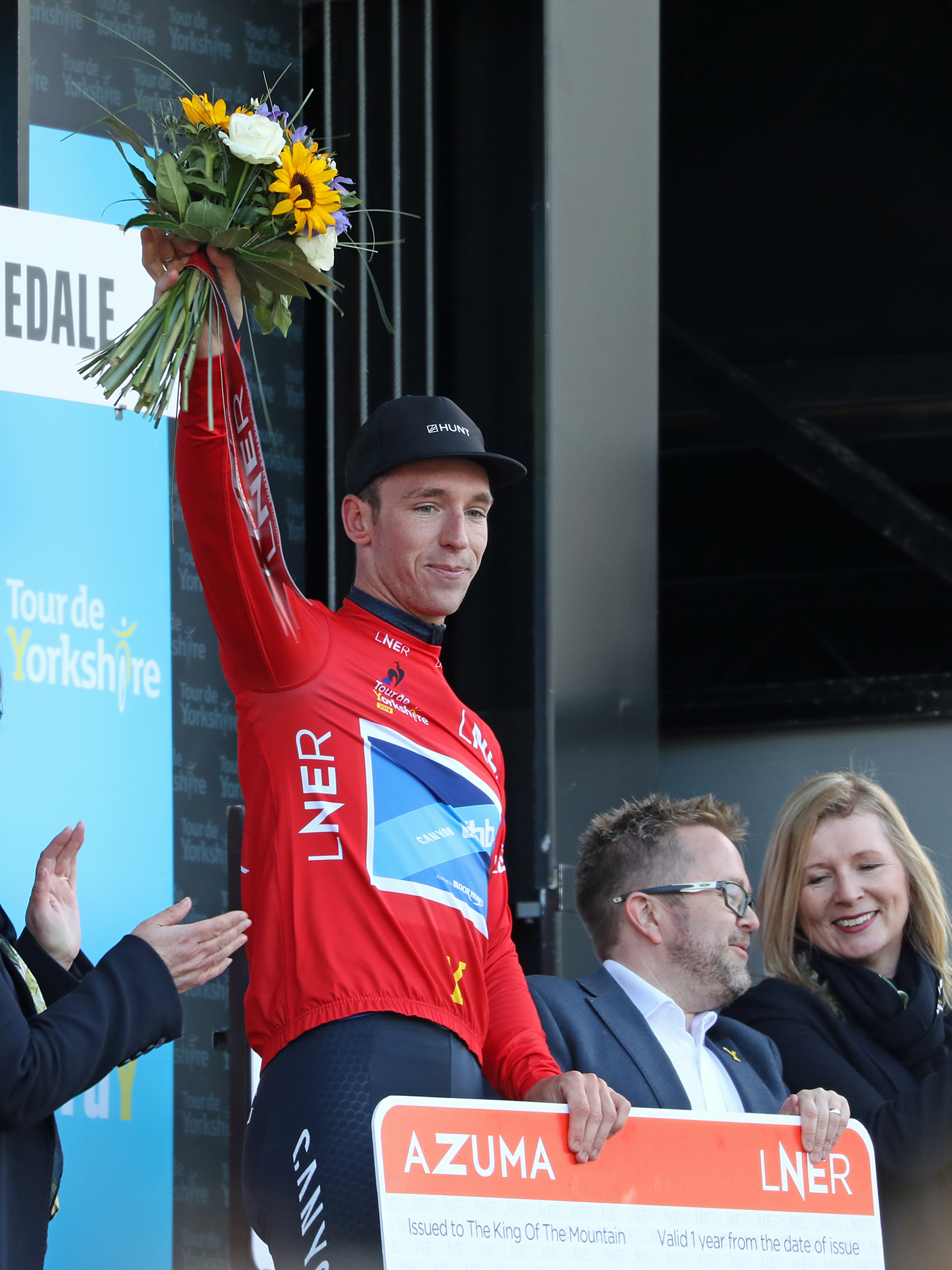 Jacob Hennessy, winner red jersey men's stage 2, Tour de Yorkshire 3 May 2019